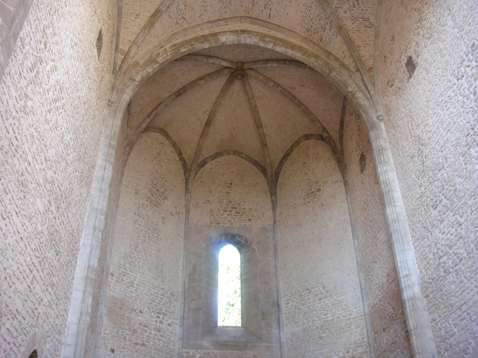 View of the interior of the church, detail